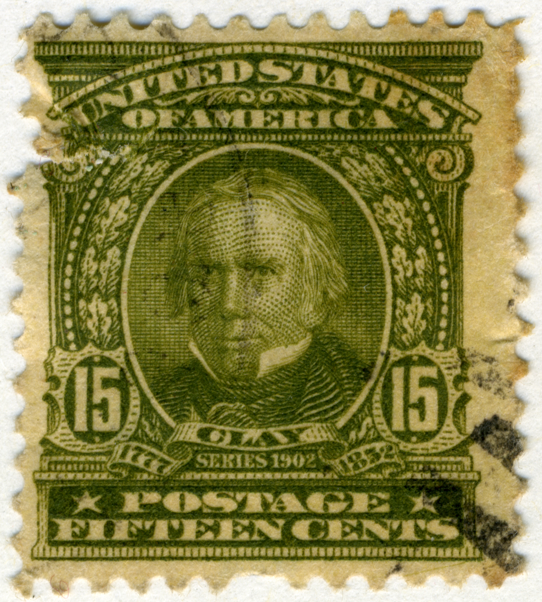 15-cent 1902 series United States postage stamp, perforated (12) with double-line watermark, depicting Henry Clay.